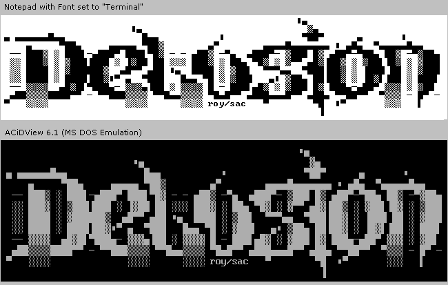 Delusion ASCII by Roy/SAC (me). Demonstrating the difference between "Block" ASCII Look and Feel when displayed with Windows Notepad and Font "Terminal" and ACIDView for Windows which uses real MS DOS Emulation. Replacement for Image:ASCII notepad acidview compare.gif